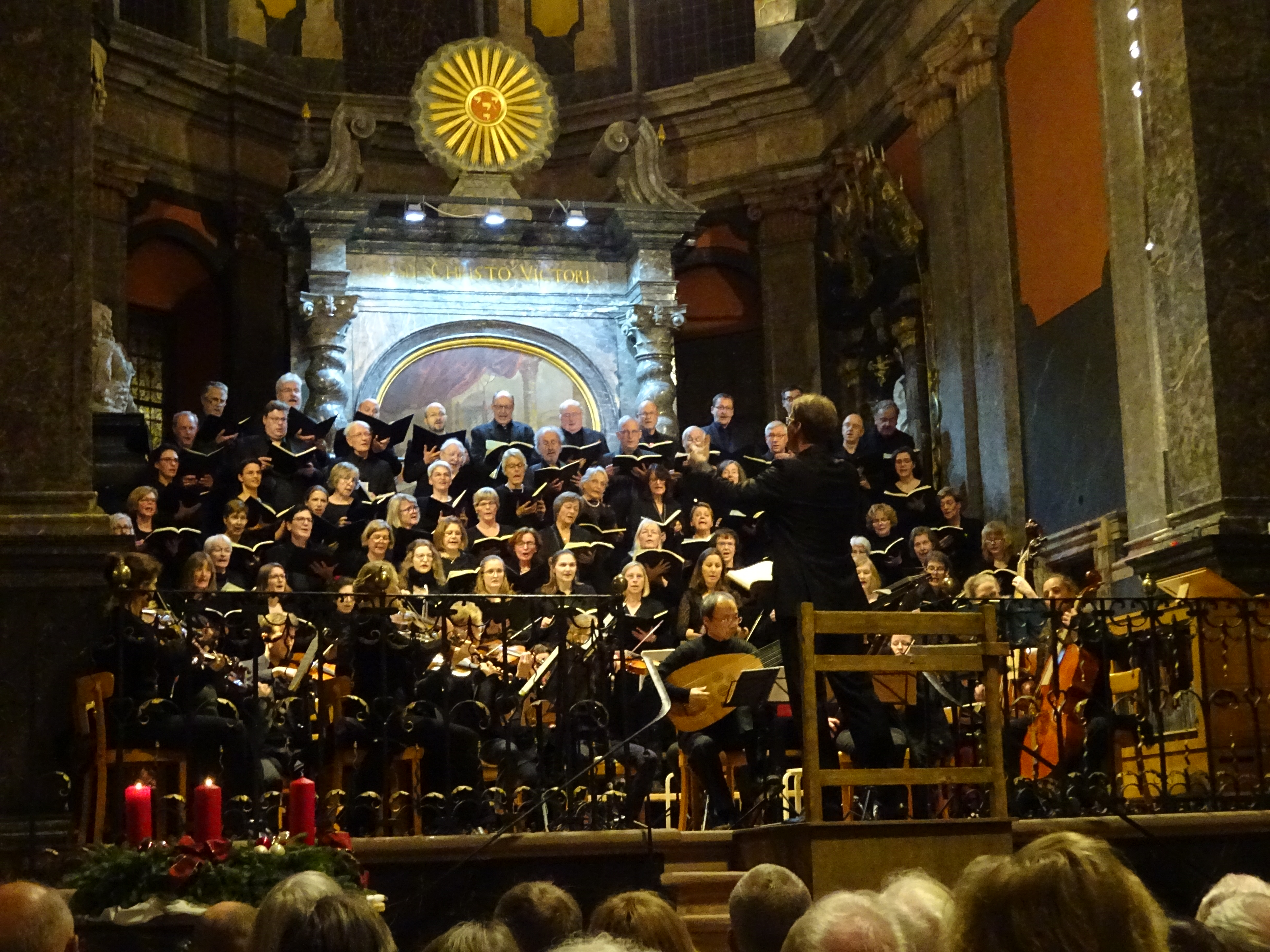 Idsteiner Kantorei in choral concert at the Unionskirche in Idstein, conducted by Carsten Koch, orchestra Nassauische Kammerphilharmonie, Bach: Christmas Oratorio, Part 5